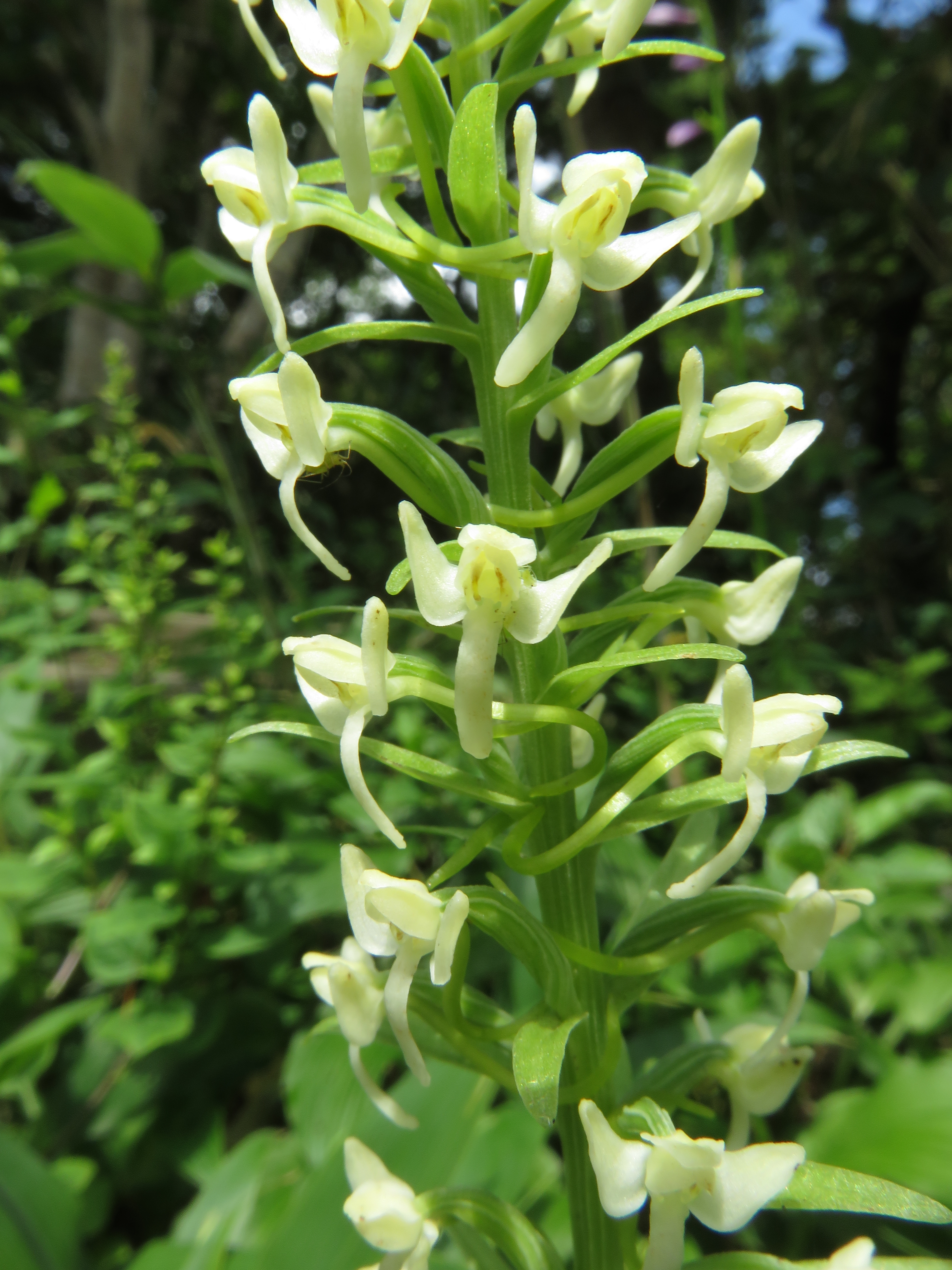 Platanthera sachalinensis, Mount Adatara, Fukushima pref., Japan